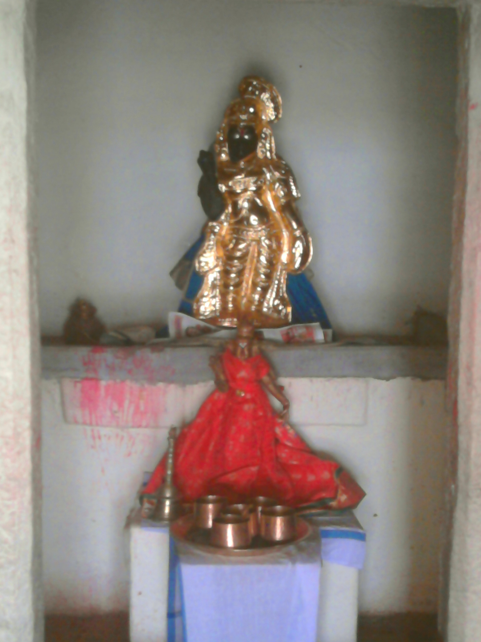 Sri Chennakesava Swami Temple, Vinjamur